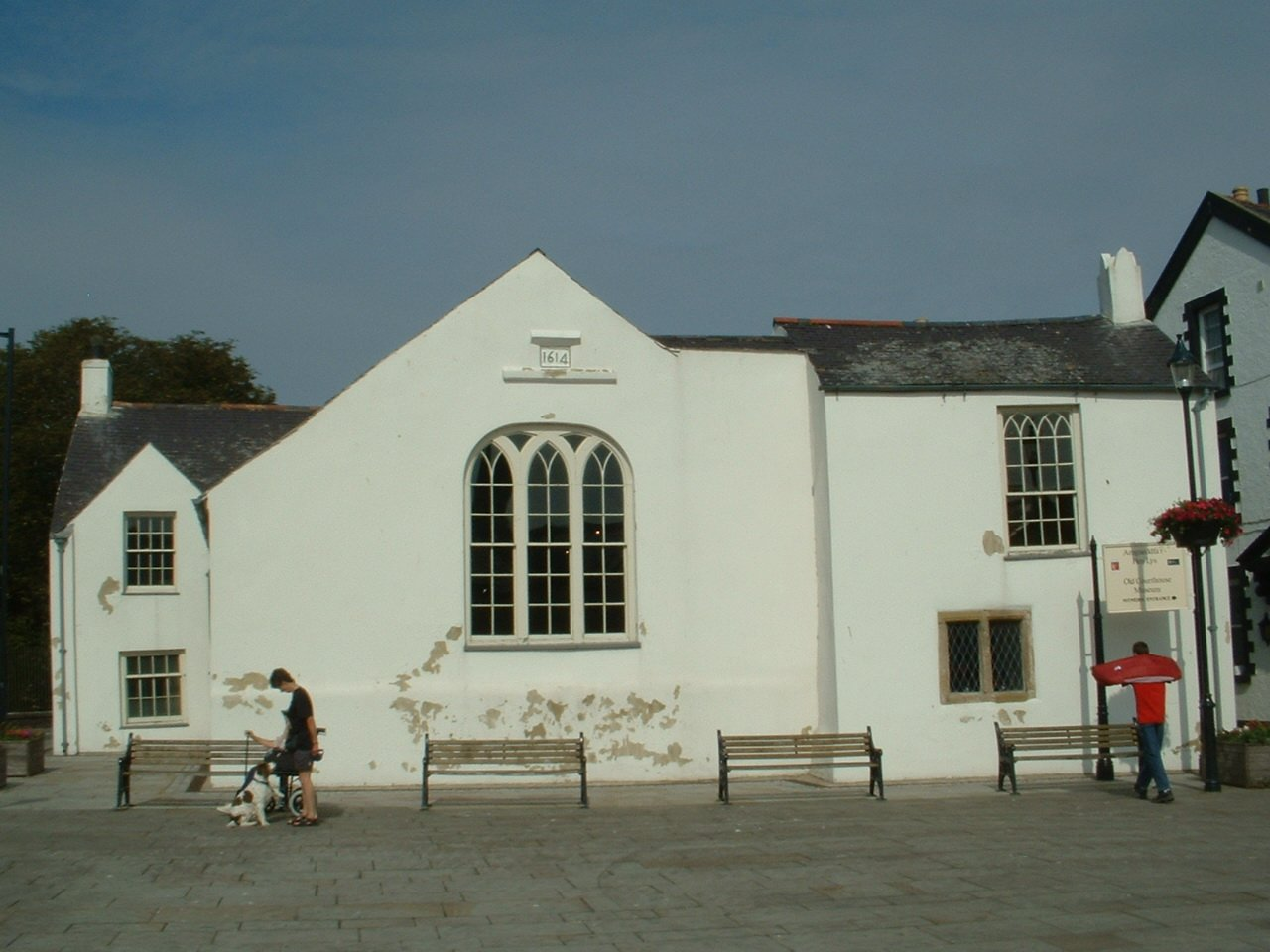 The Old Courthouse, Beaumaris. Taken by Necrothesp, 25 June 2005.